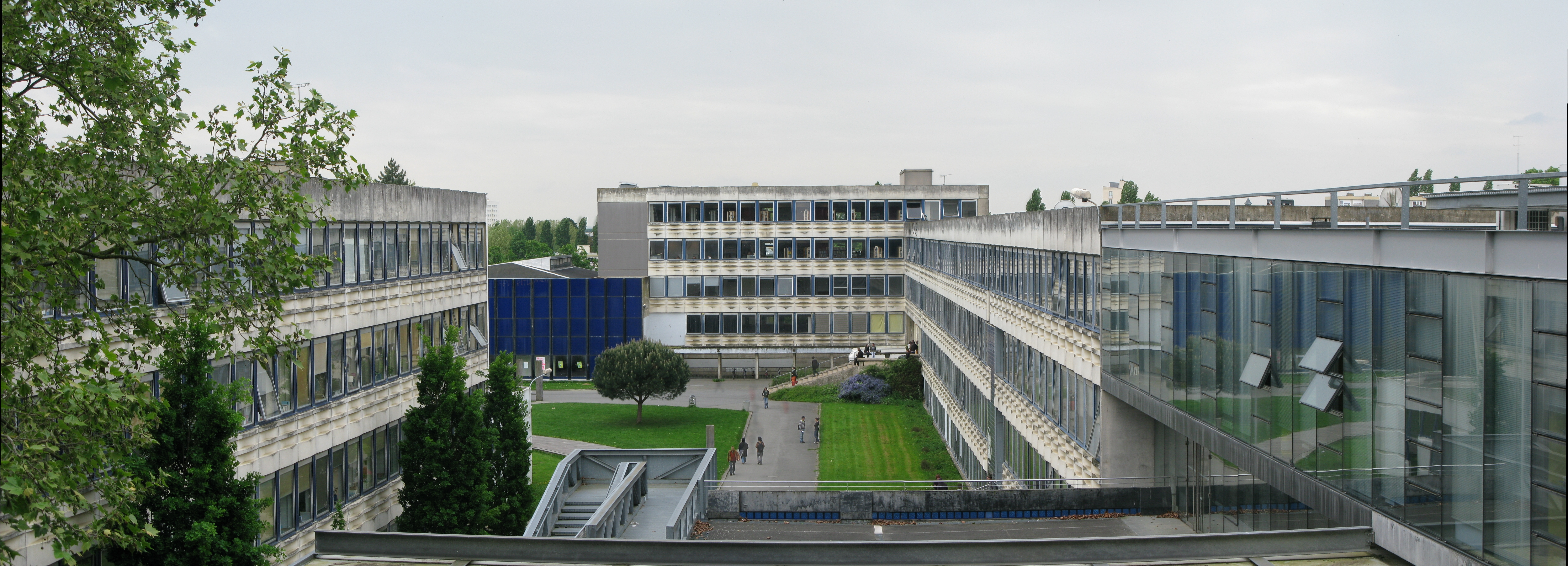 Panorama from the Presidence Building of the University of Rennes 2' campus in the city of Rennes, France. On the left and on the background, the White and Blue buildings are from architect Louis Arrechte.